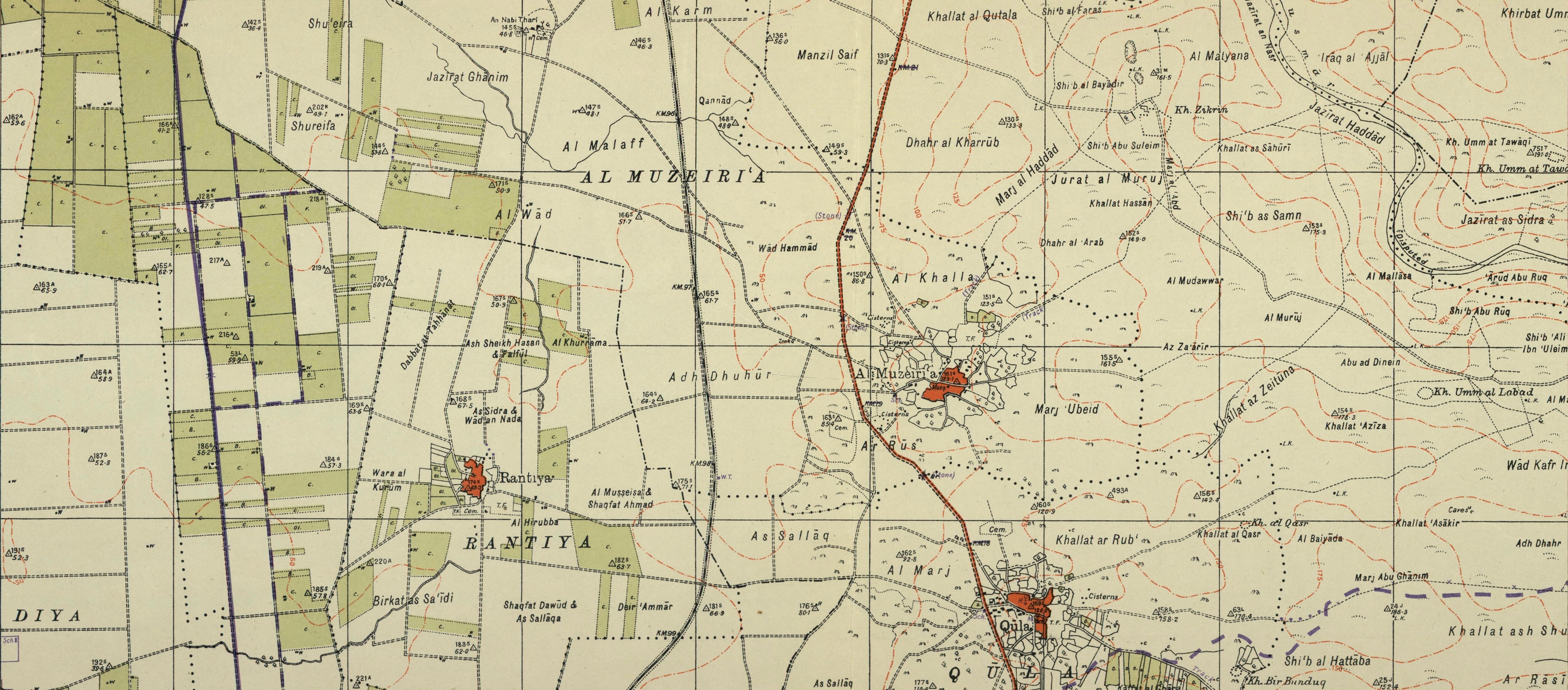 Al Muzeiria 1941 1:20,000